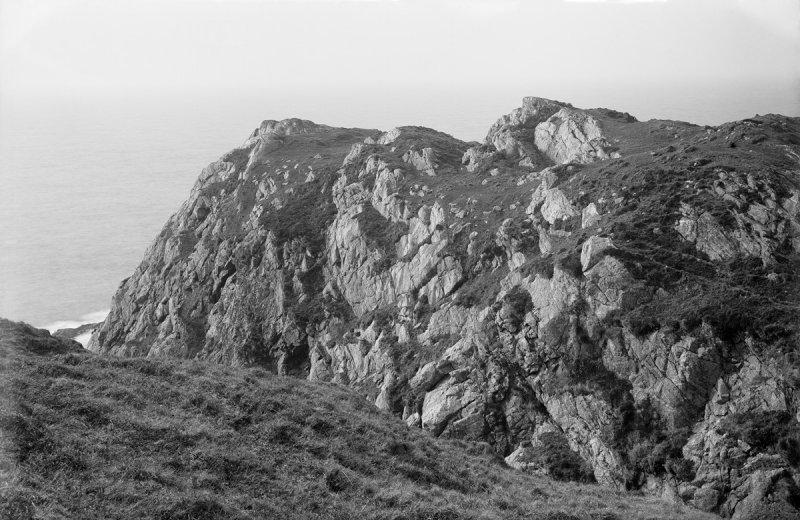 Photograph of Dùn Dubh, on the Inner Hebridean island of Coll. The original source gives the caption: General View from South East.